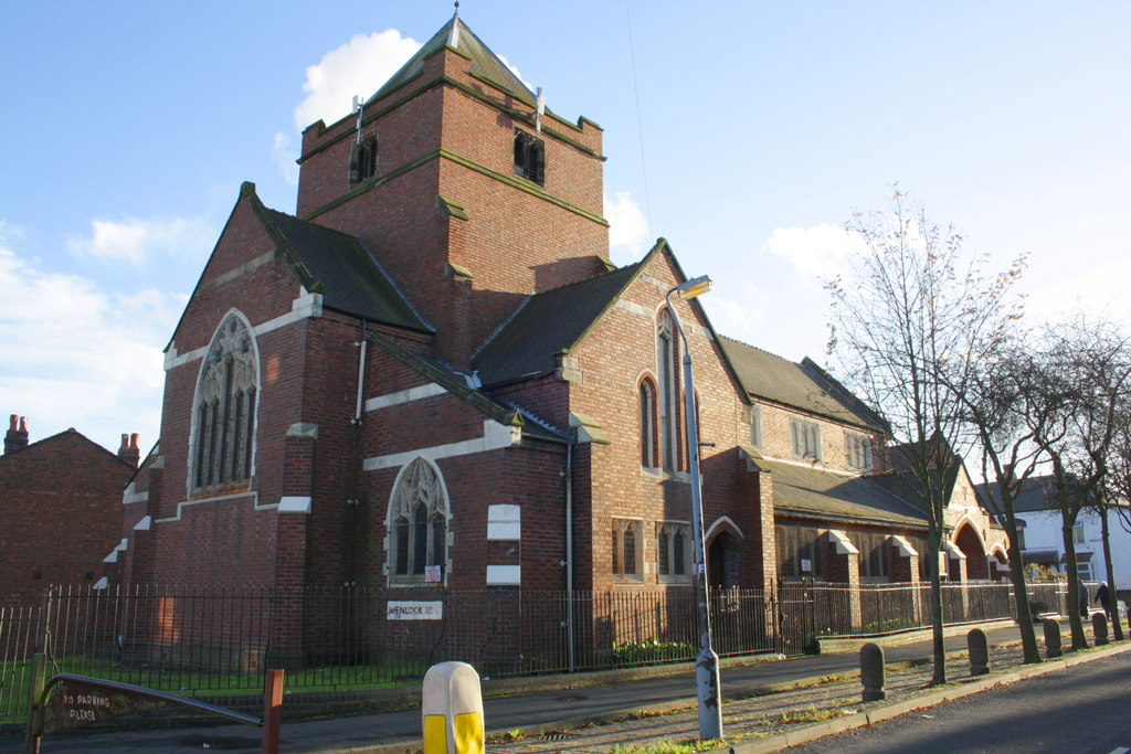 All Souls Church, Wenlock Road/Nelson Road junction